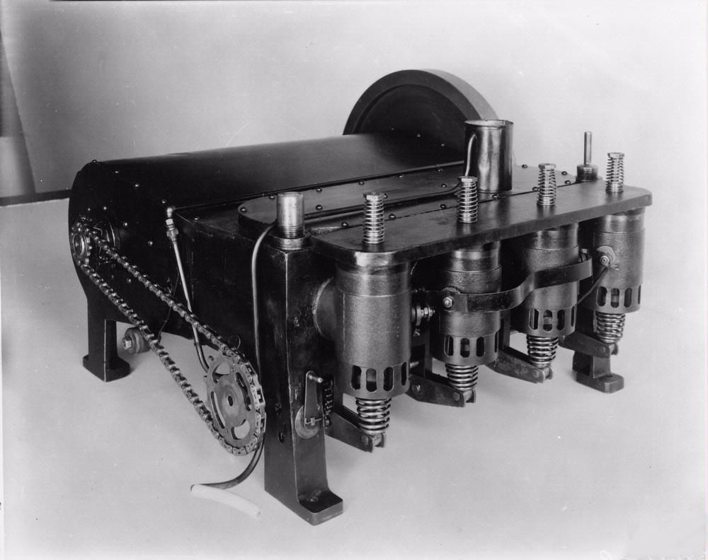 The 1903 Wright flyer used a simple 4 cylinder engine.